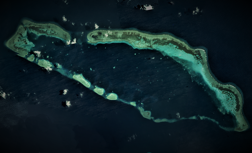 Alison Reef is an atoll of Spratly Islands.